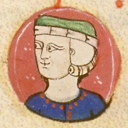 Peter I. of Alencon